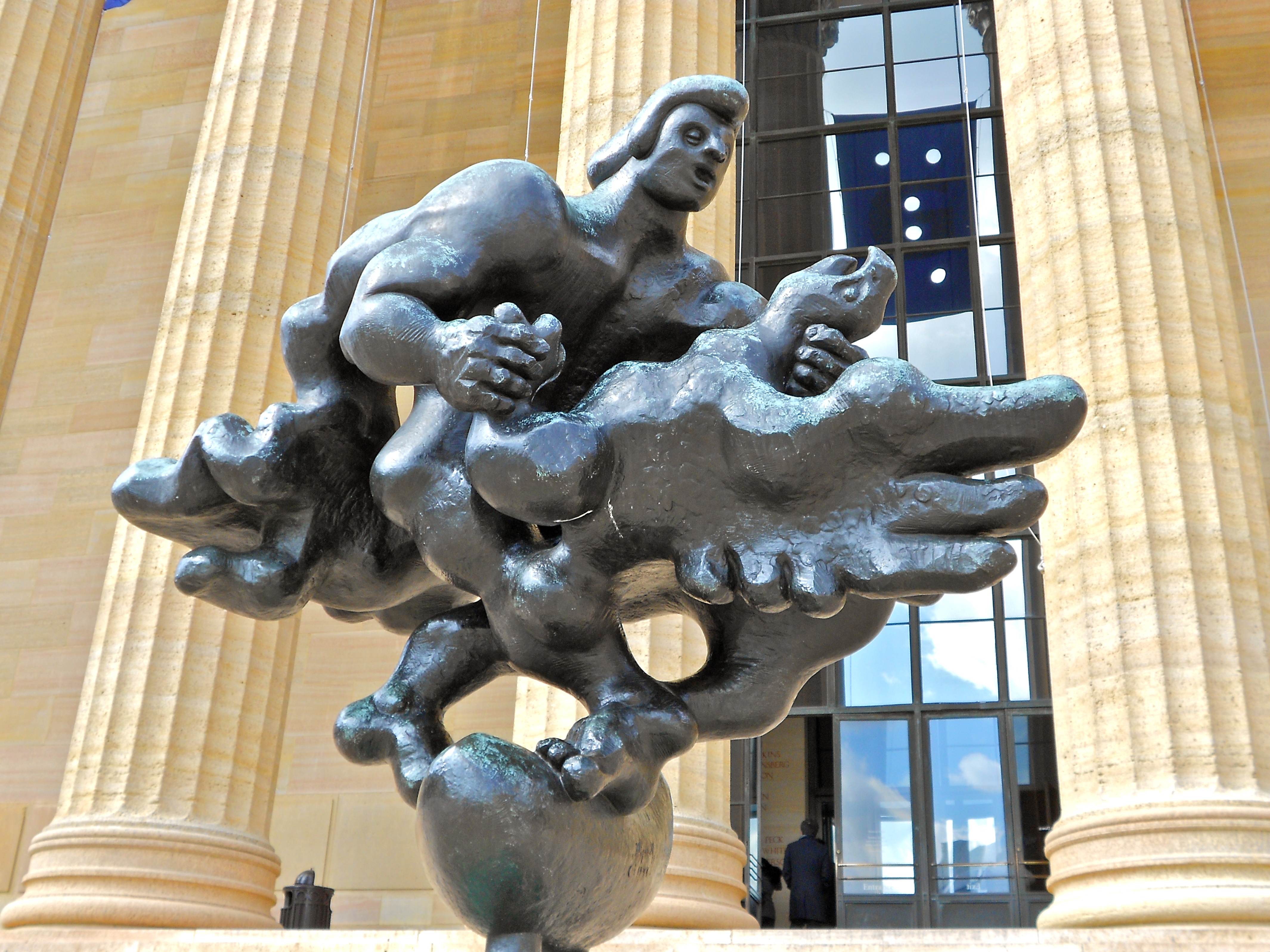 Sculpture of "Prometheus Strangling the Vulture" (Lipchitz), Jacques Lipchitz. Created 1943 Metal: bronze Sculpture: bronze; Base: limestone. Smithsonian reference IAS PA000001. On east steps (Rocky Steps) of the Philadelphia Museum of Art.